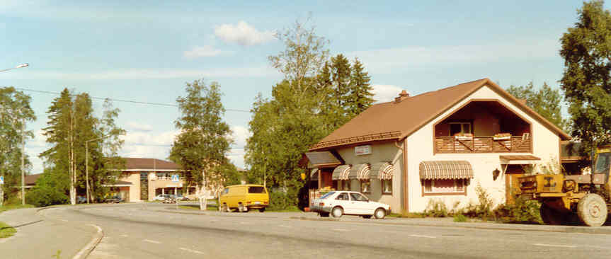 The Centre of Karijoki, Finland in 1990